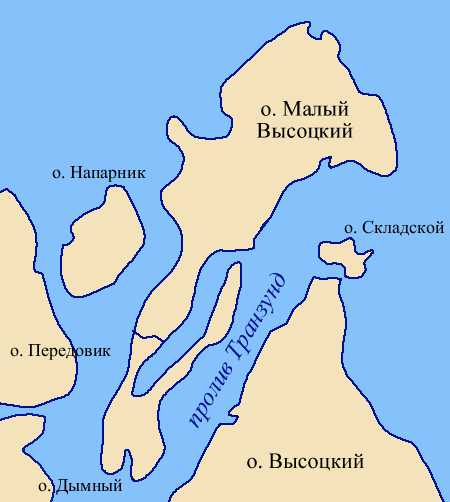 Map of Maly Vysotsky Island